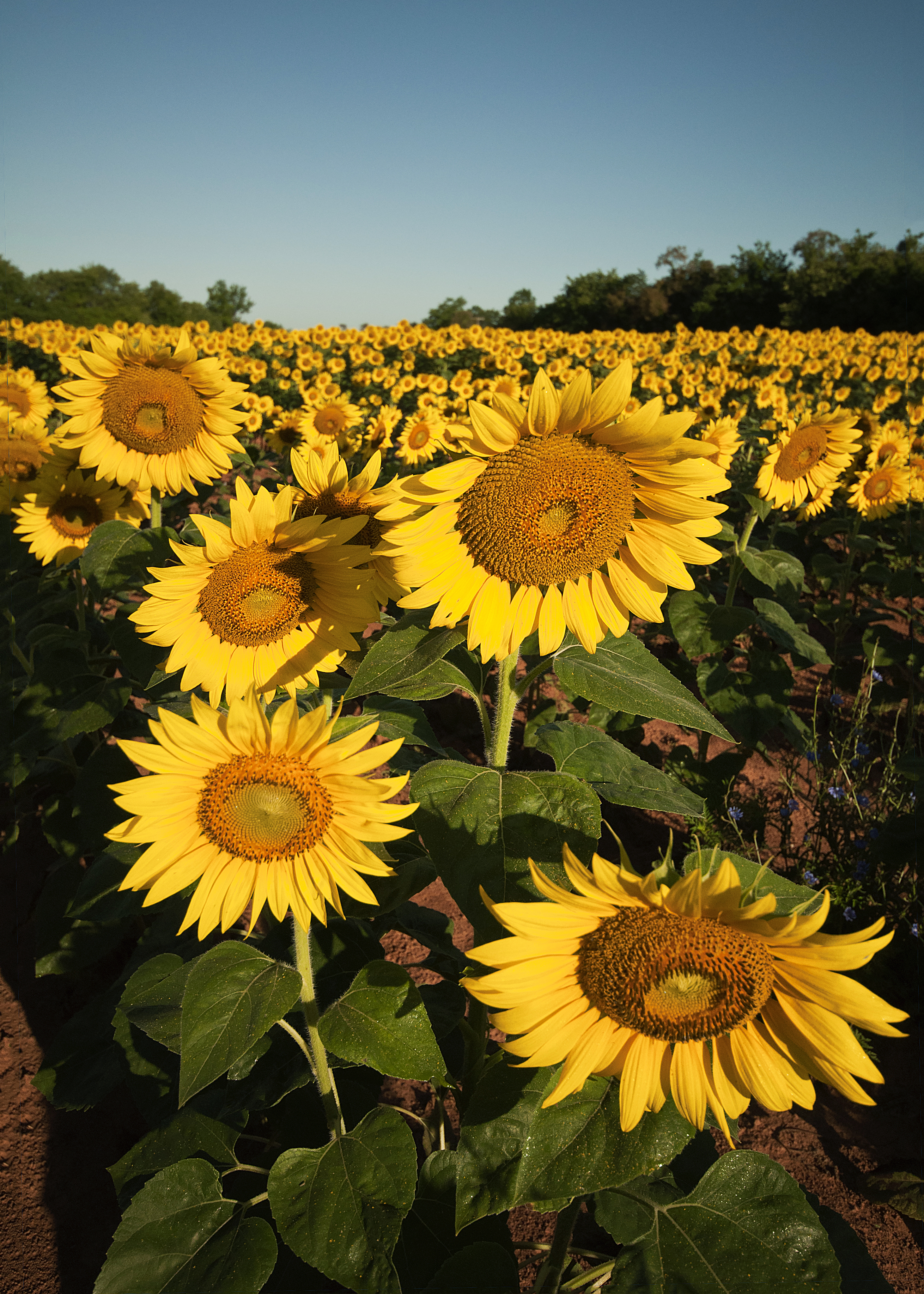 untitled, Location: Rural Montgomery County